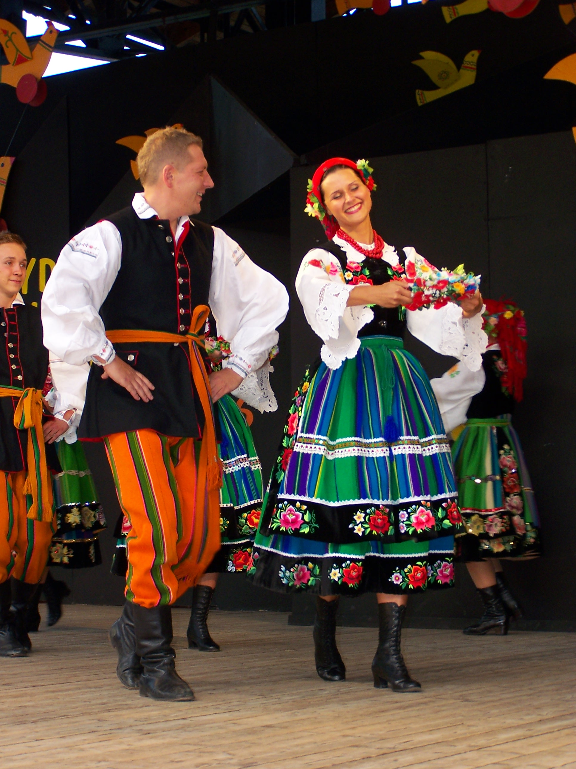 Traditional costumes from Łowicz, Poland.